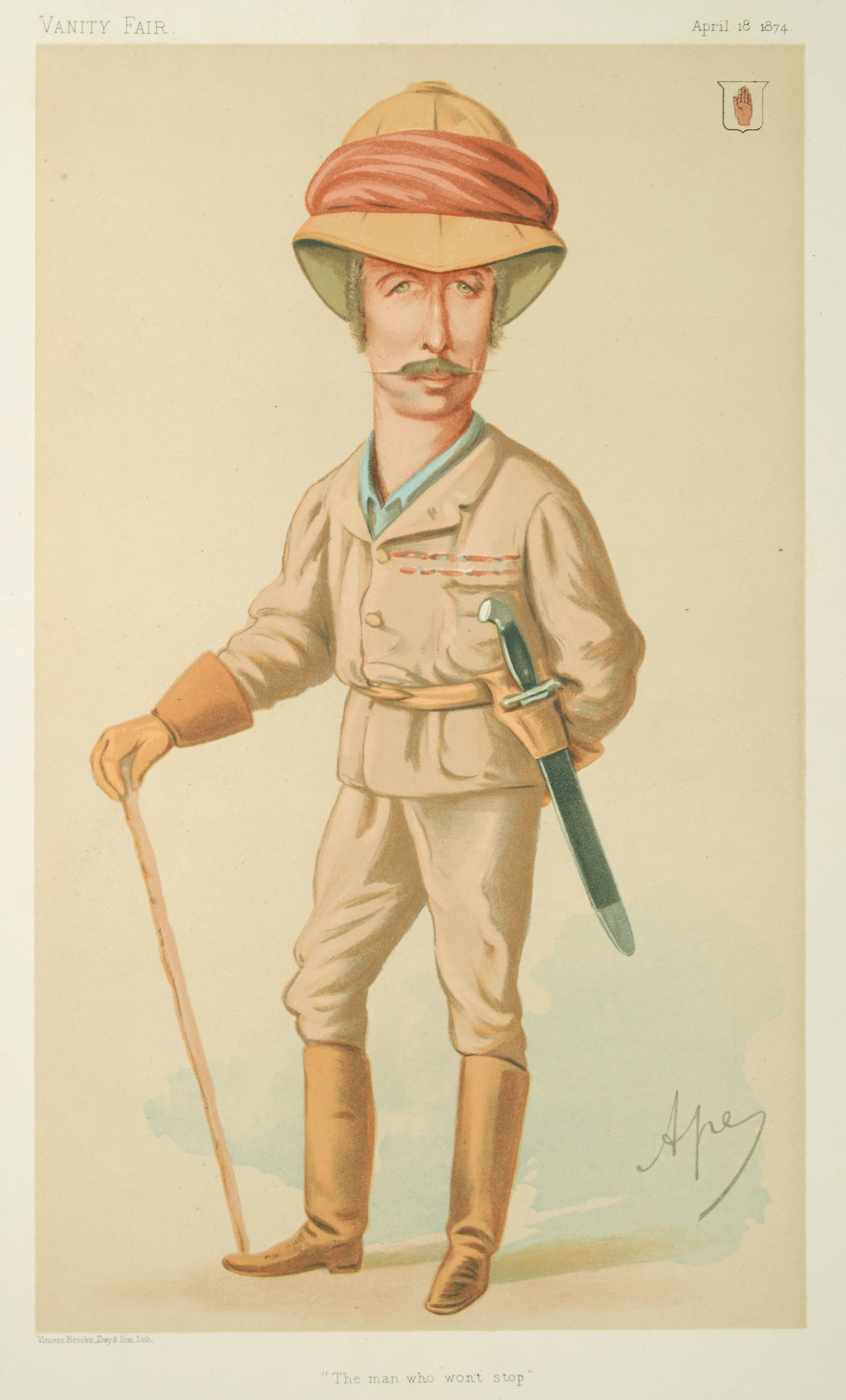 Men of the Day No.86: Caricature of Sir Garnet Wolseley Bt KCB. Caption reads: "The man who won't stop"